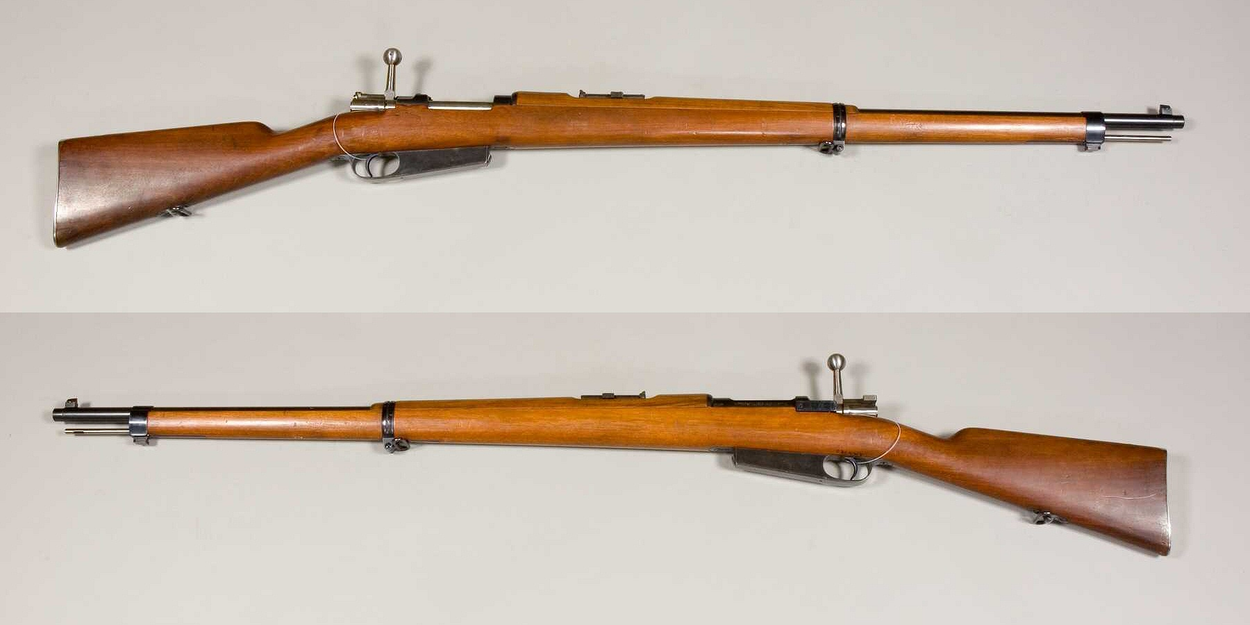 Sweden. Experimental rifle m/1892 tested in the rifle trials that led to the Swedish Mauser. Made by Mauser, Oberndorf a/N, Germany. Caliber 8x58mmR Danish Krag (the Swedish standard rifle caliber prior to the 6.5x55mm; the 8x58mmR rounds tested had a steel jacketed 14.5 gr bullet over smokeless powder, with a muzzle velocity of 605 m/s), fixed external magazine, capacity 4 rounds. Length 1235 mm, barrel length 735 mm, weight 3.84 kg. From the collections of Armémuseum (Swedish Army Museum), Stockholm.